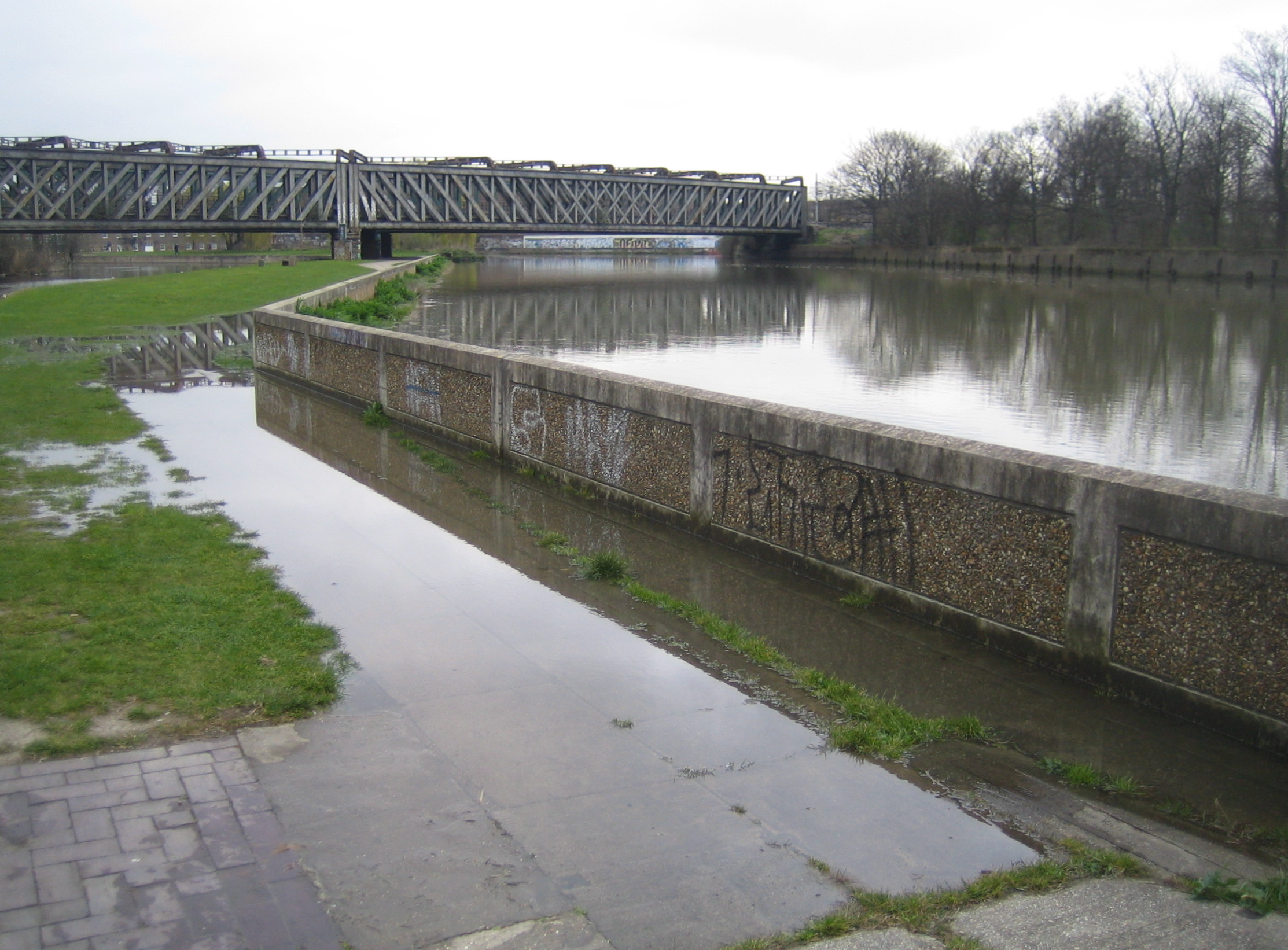 Bow Creek flooding to a towpath on the Lee Navigation near Bow Locks